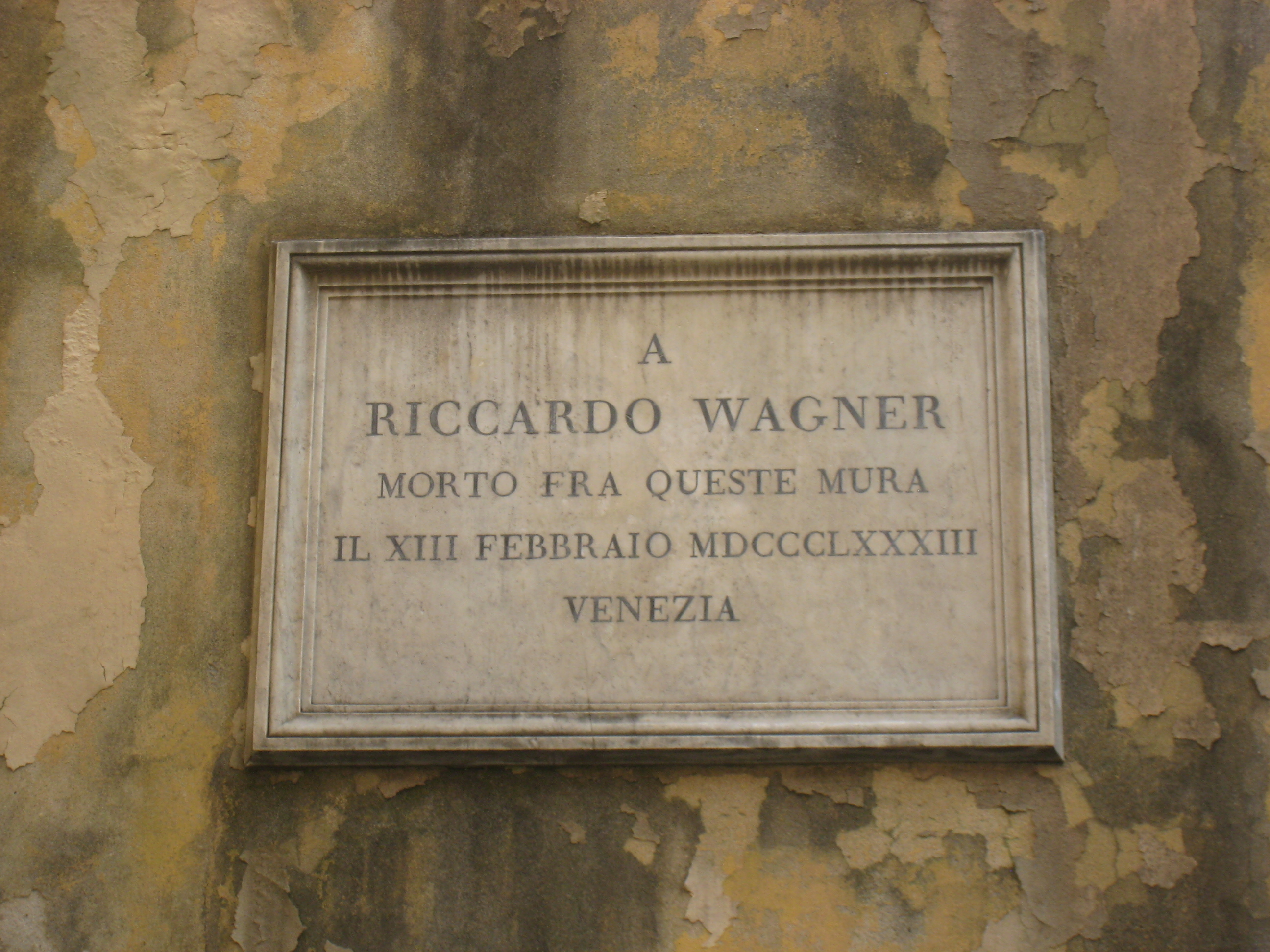 Plaque dedicated to R. Wagner on the wall of the building where he died in Venice.